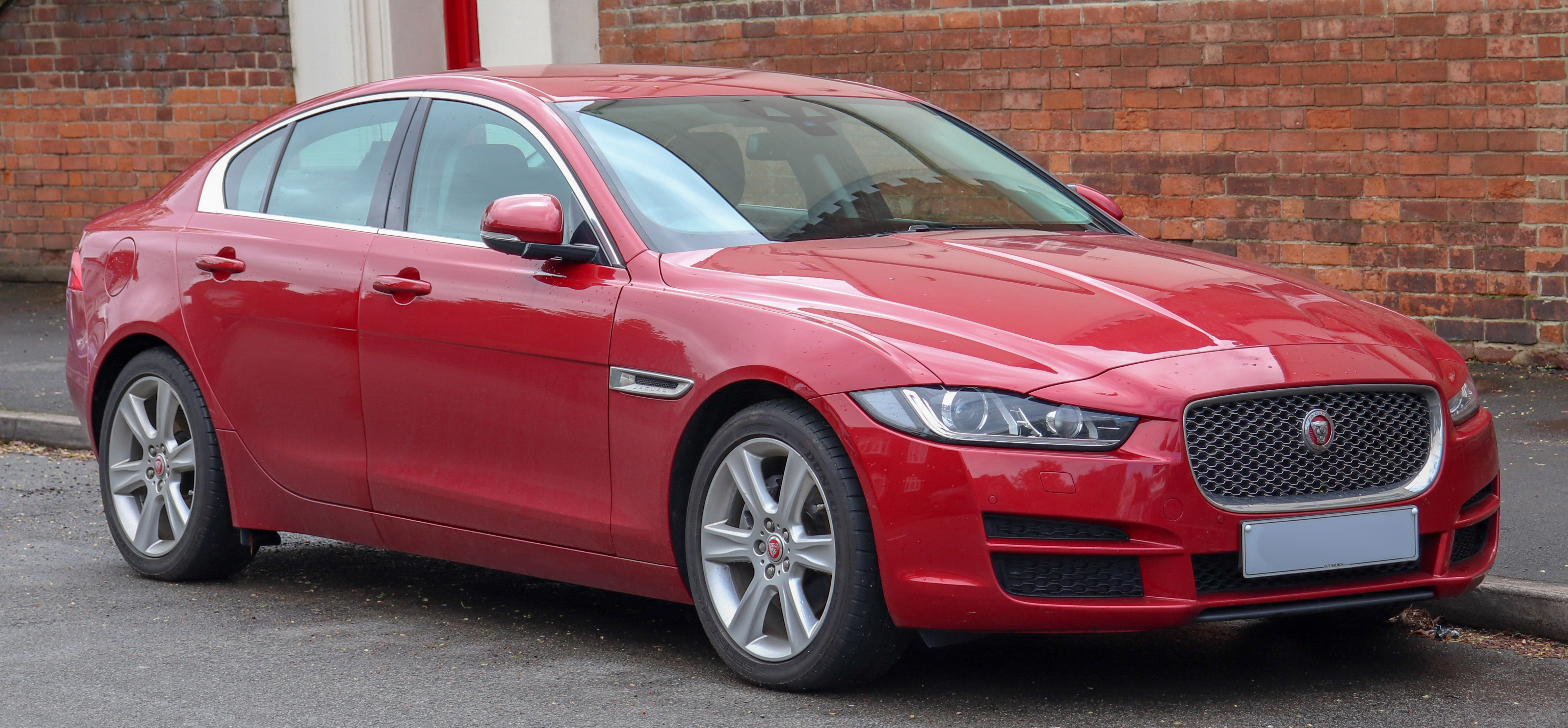 2017 Jaguar XE Portfolio Diesel Automatic 2.0 Front Taken in Leamington Spa